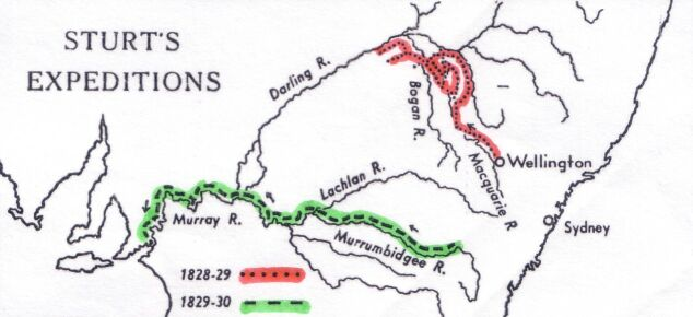 Map of the explorer's route in Australia. This image is of Australian origin and is now in the public domain because its term of copyright has expired. According to the Australian Copyright Council (ACC), ACC Information Sheet G023v16 (Duration of copyright) (Feb 2012). Type of materialCopyright has expired if ... A Photographs or other works published anonymously, under a pseudonym or the creator is unknown:taken or published prior to 1 January 1955 B Photographs (except A):taken prior to 1 January 1955 C Artistic works (except A & B):the creator died before 1 January 1955 D Published editions1 (except A & B):first published more than 25 years ago E Commonwealth or State government owned2 photographs and engravings:taken or published more than 50 years ago and prior to 1 May 1969 1 means the typographical arrangement and layout of a published work. eg. newsprint. 2owned means where a government is the copyright owner as well as would have owned copyright but reached some other agreement with the creator. When using this template, please provide information of where the image was first published and who created it.